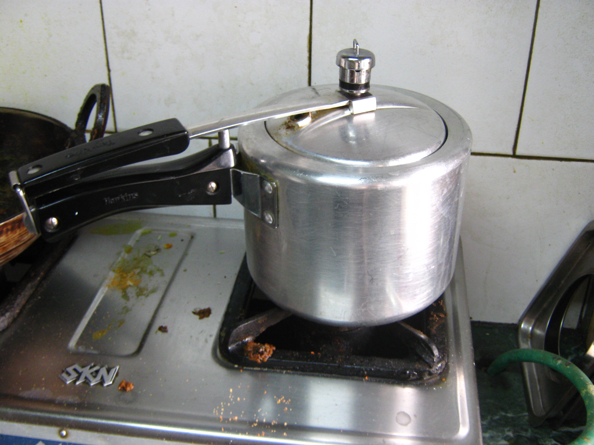 utensils used in Indian kitchen.